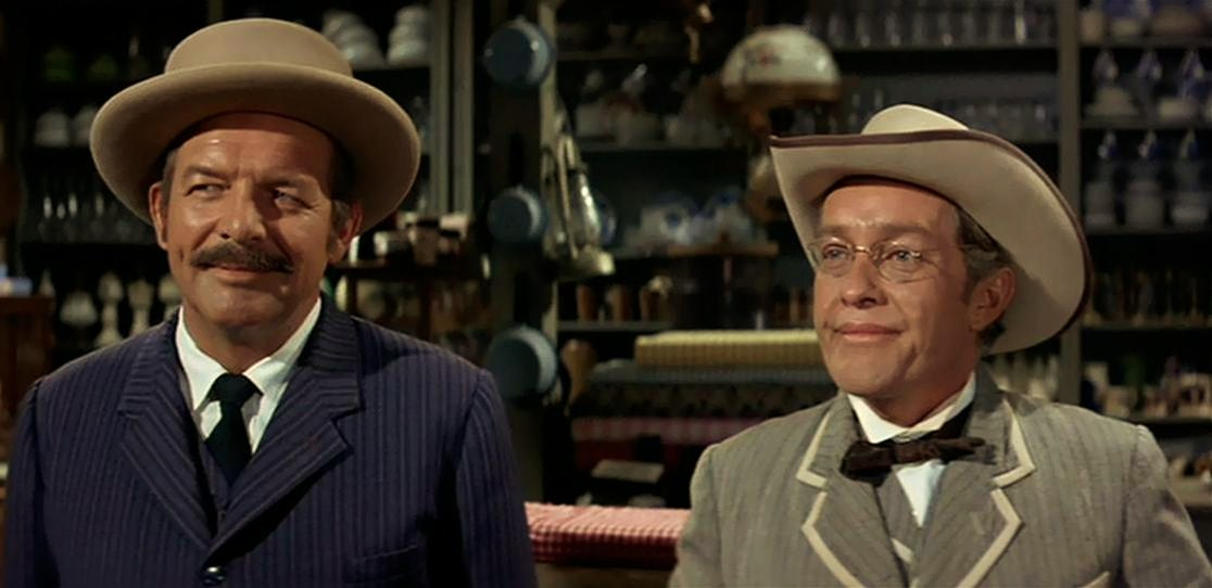 Gordon Jones (left) & Strother Martin in McLintock! (cropped screenshot)